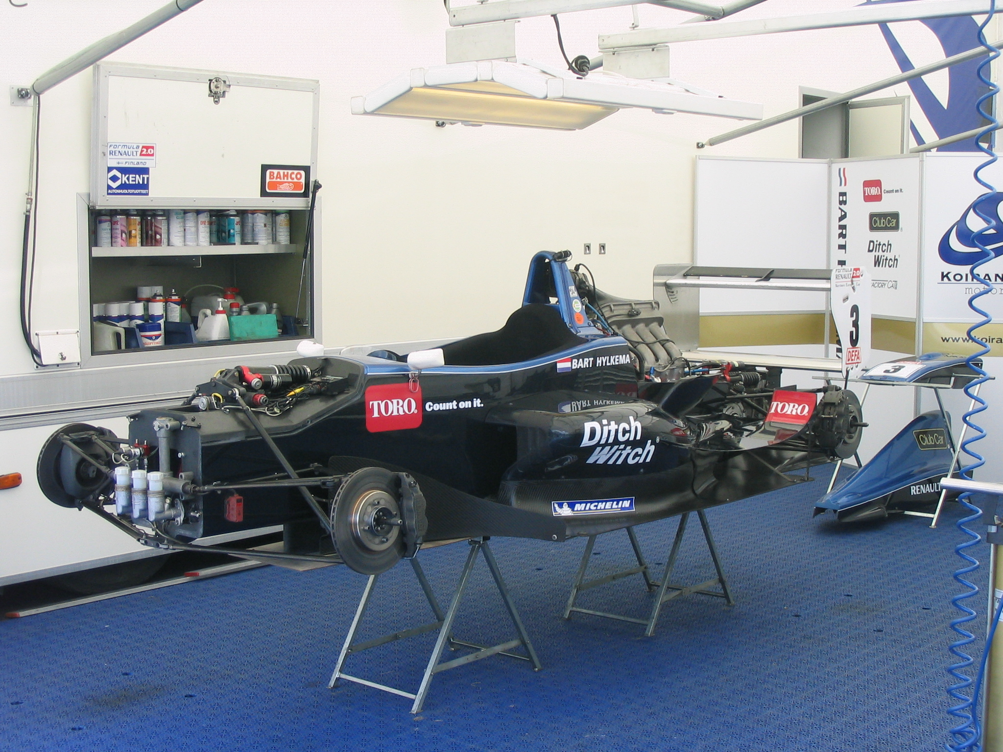 Northern European Cup car driven by Bart Hylkema in Oschersleben 2008. The Tatuus FR2000 stand in a tent in the paddock.